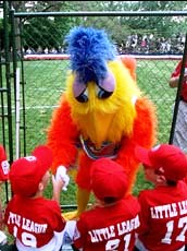 The San Diego Chicken at a tee-ball game on the lawn of the White House